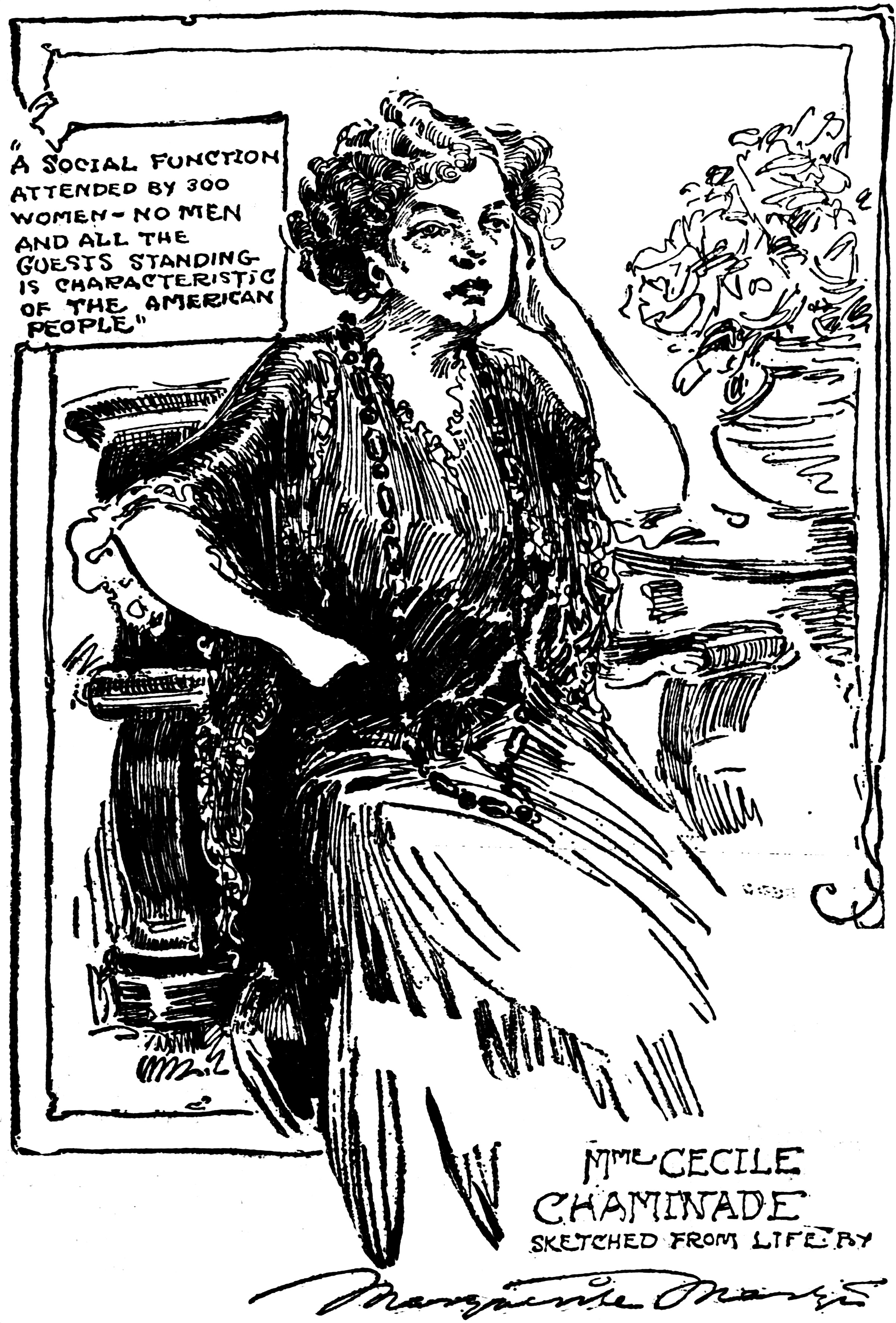 Cecile Chaminade